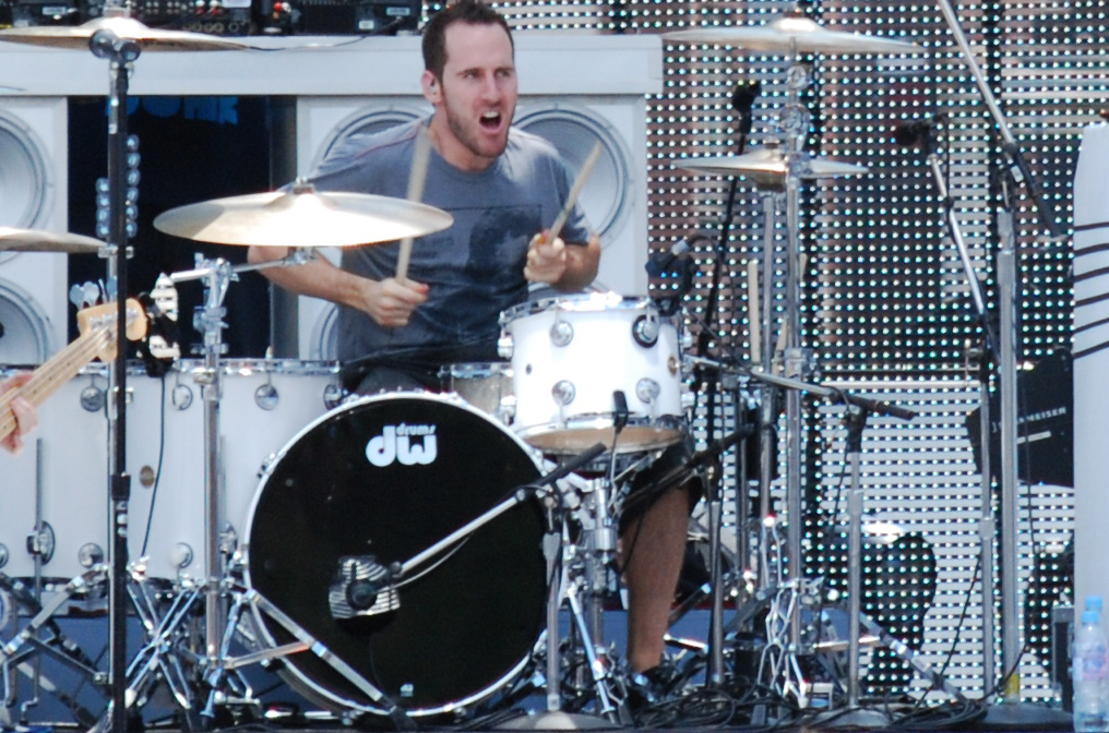 Chuck Comeau Practising with band, Simple Plan (out of shot), at the Much Music Video Awards 2008.